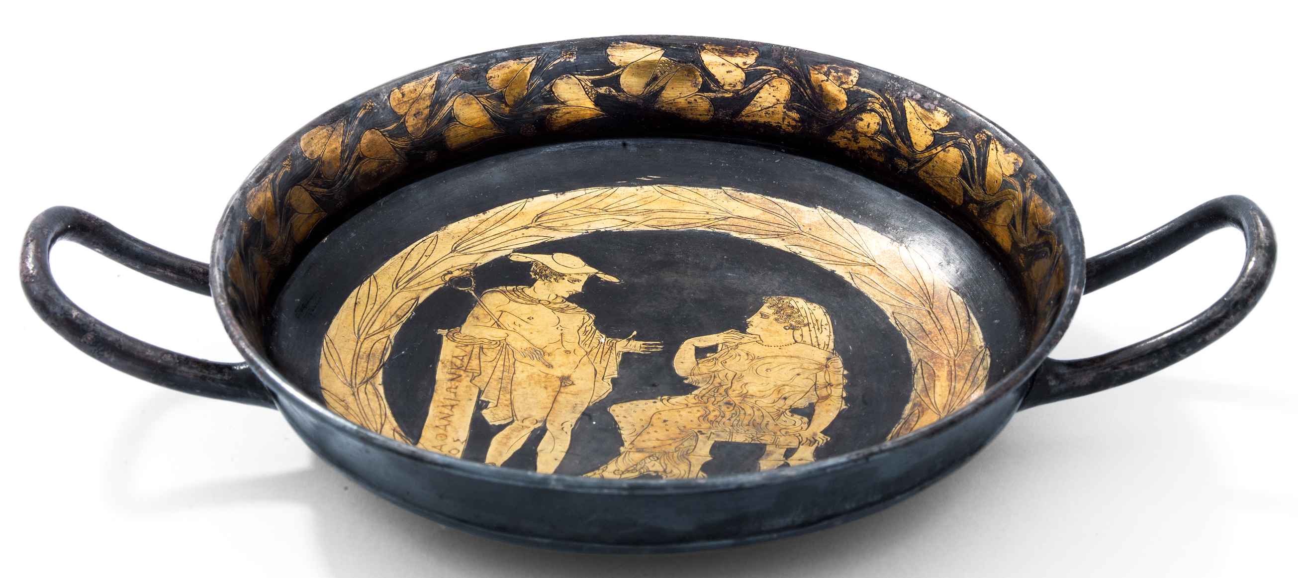 Silver kylix with Helen and Hermes, ca. 420 BC, part of the Vassil Bojkov collection, Sofia, Bulgaria